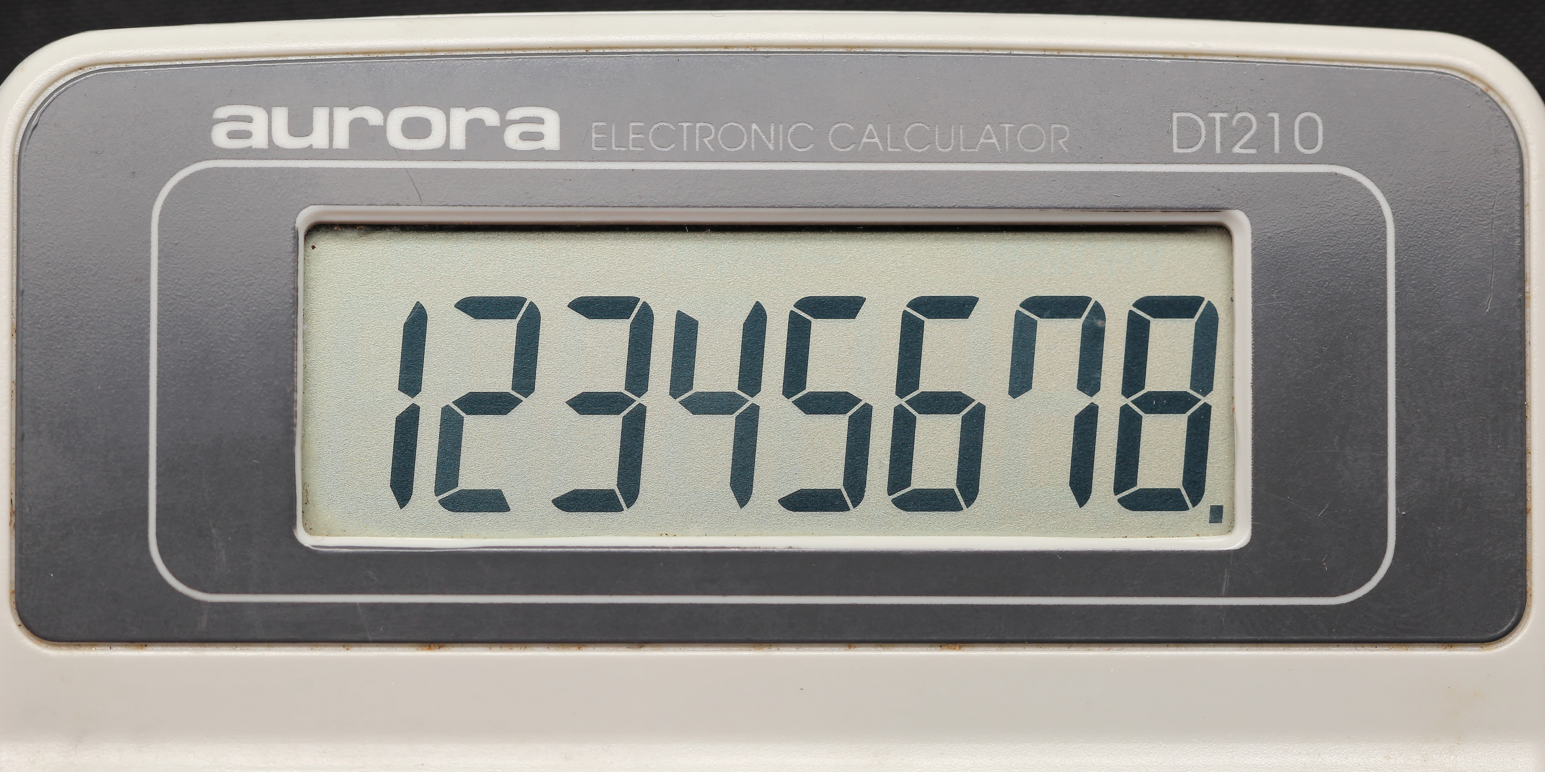 electronic calculator Spacious keypad for easy entry Large seven-segment 8 digit fixed angle display Durable hard keys 4 key memory and 4 constants +/–, % and square root keys Solar power with battery backup Rubber feet (For desk-top use) Manual and Auto power off